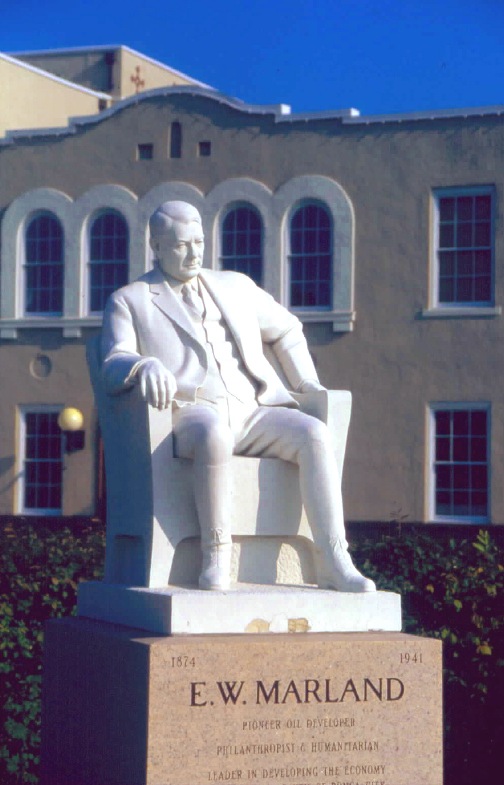 photo by Einar Einarsson Kvaran - statue of E. W. Marland by Jo Davidson in Ponca City Oklahoma created circa 1928. Carptrash 20:00, 18 December 2005 (UTC)